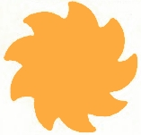 Sybowl of the Traditional Leisure 17 boat